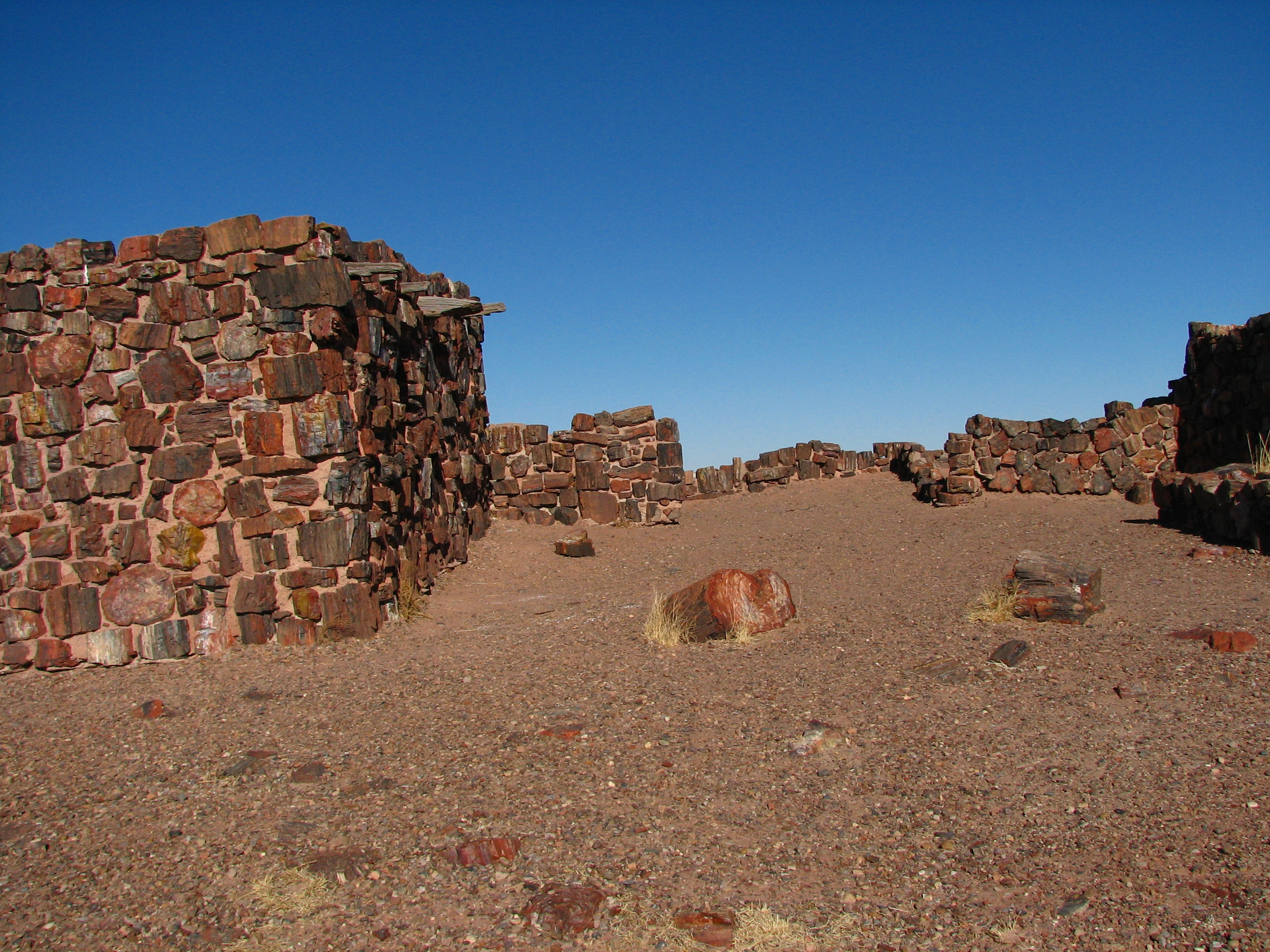 Structure made of Petrified Wood in Petrified Forest National Park, AZ